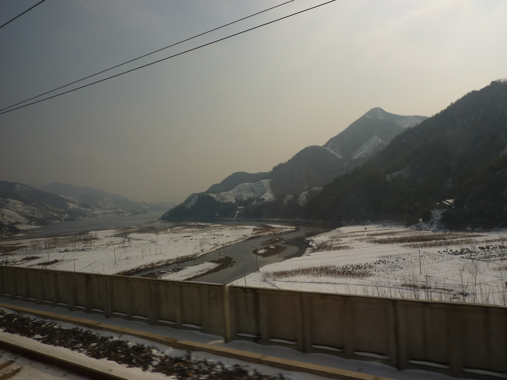 Mountainous landscapes (Dabie Mountains) of Jinzhai County, Anhui, seen form a train running on the Hewu (Henan-Wuhan) Railway.